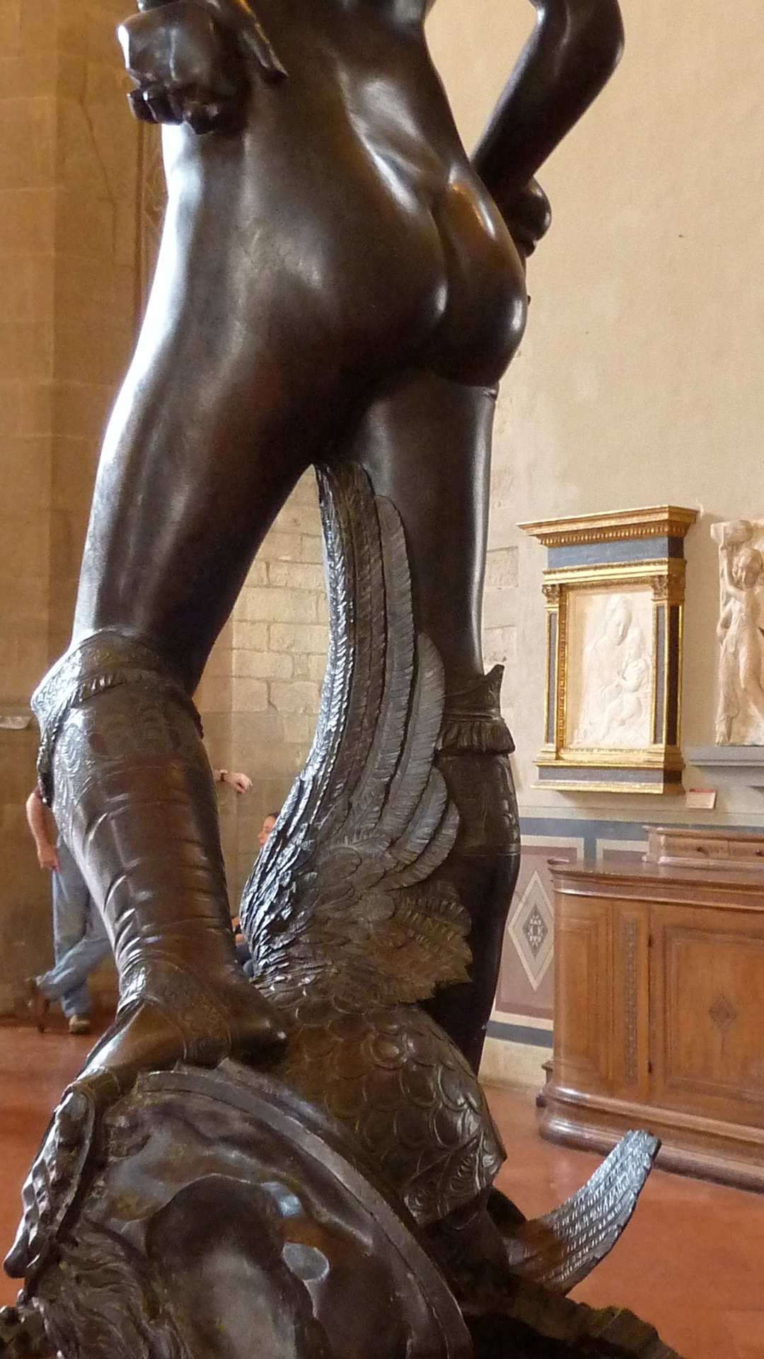 David's Patoot